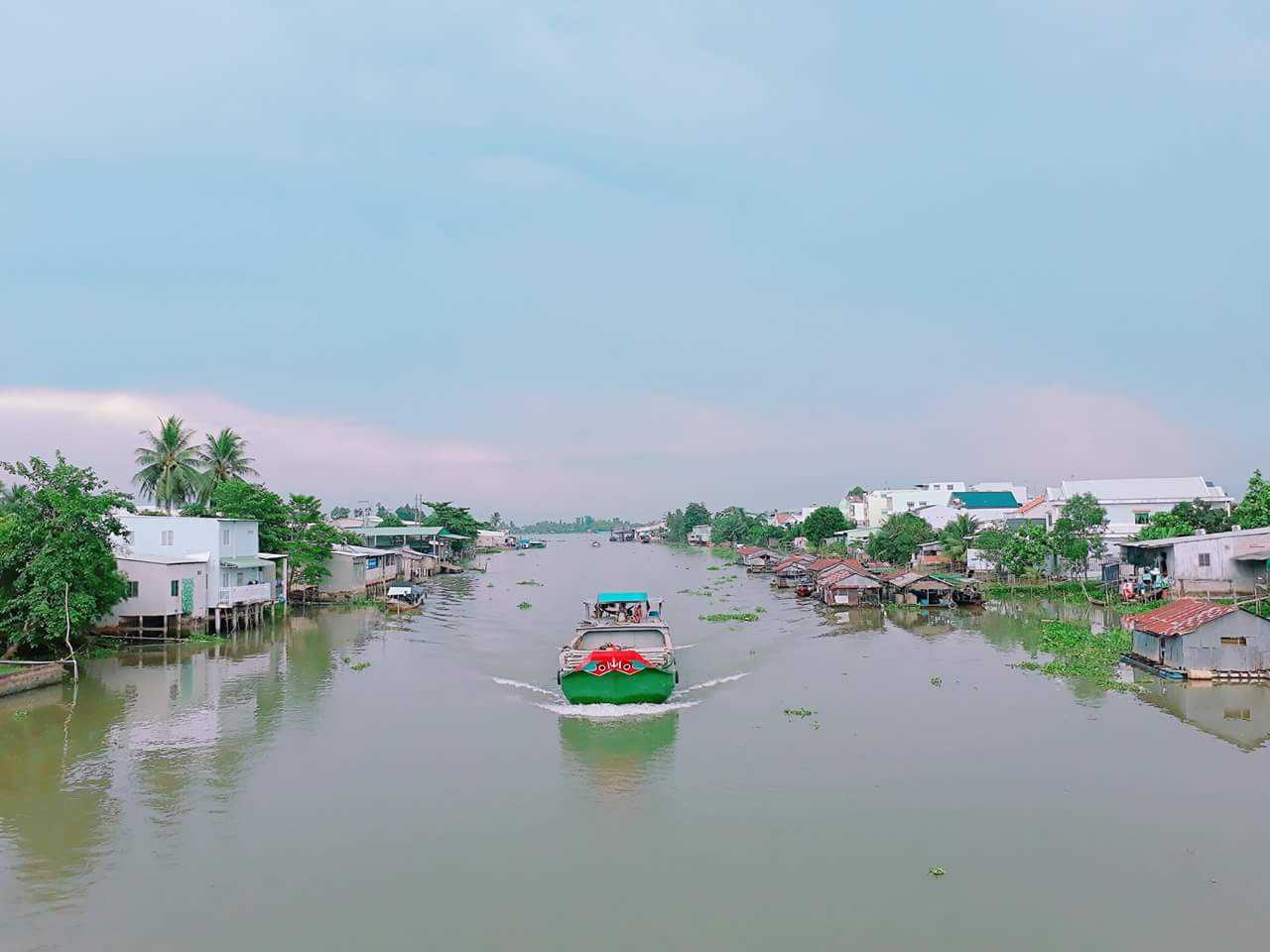 Lai Vung river